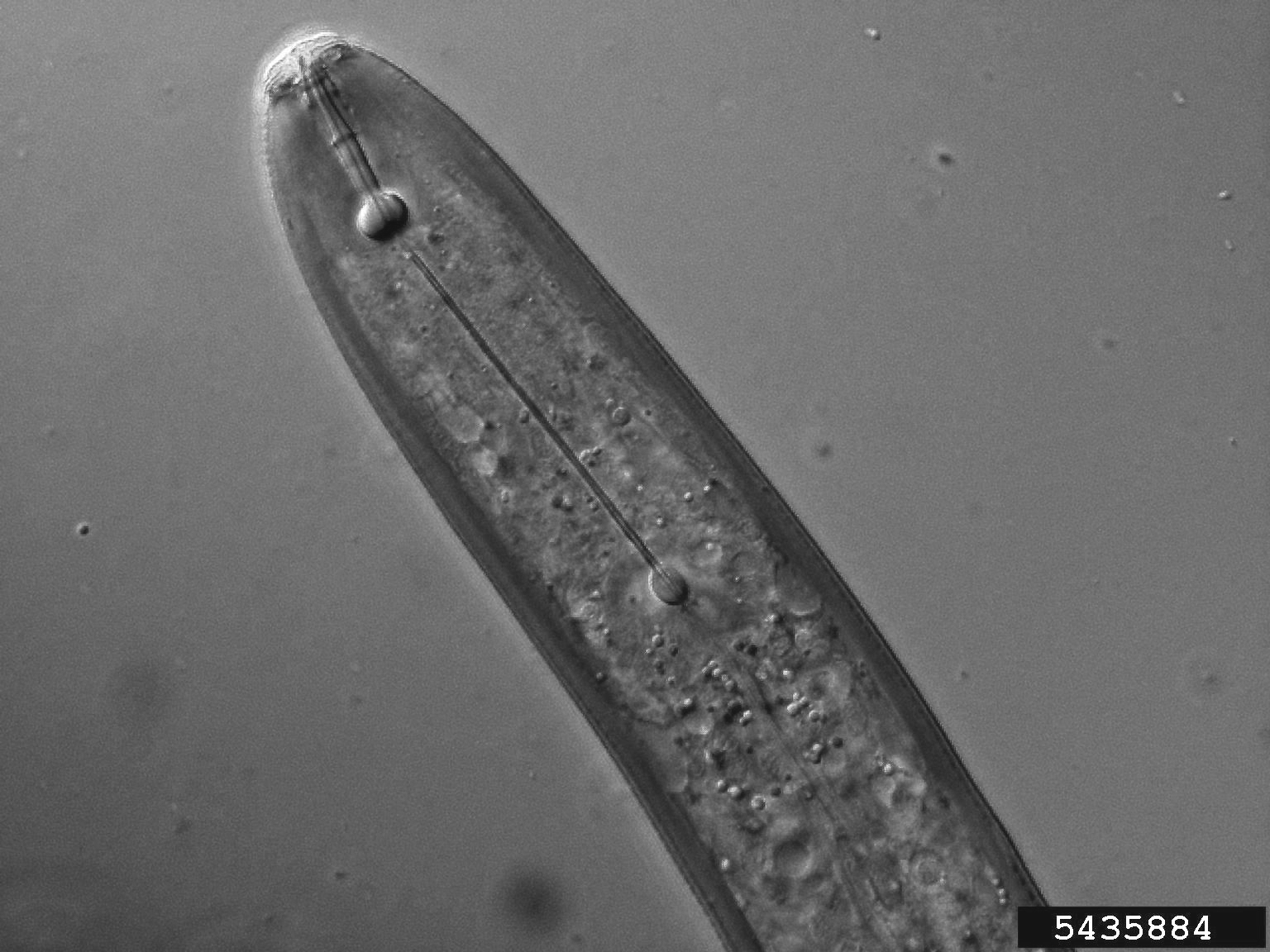 Pratylenchus sp.